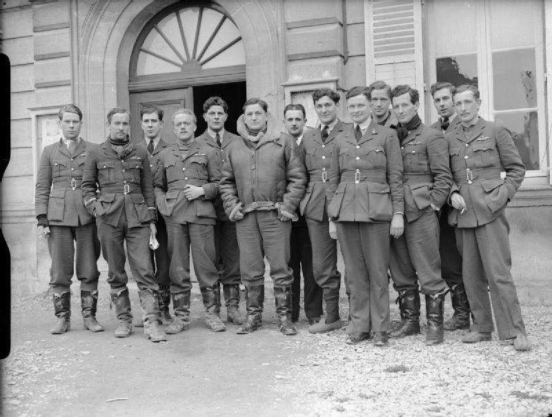 Officers of No. 1 Squadron RAF standing outside their mess, the Mairie at Neuville-sur-Ornain : (left to right) Flying Officer W Drake Flying Officer L R Clisby Pilot Officer L Lorimer Flight Lieutenant P P Hanks Flying Officer P W O "Boy" Mould Squadron Leader P J H "Bull" Halahan (Commanding Officer) Lieutenant Jean "Moses" Demozay (French Air Force interpreter) Flight Lieutenant P R "Johnny" Walker Flight Lieutenant D M "Doc" Brown (Medical Officer) Flying Officers P H M Richey I J "Killy" Kilmartin Pilot Officer Mitchell Flying Officer C D "Pussy" Palmer